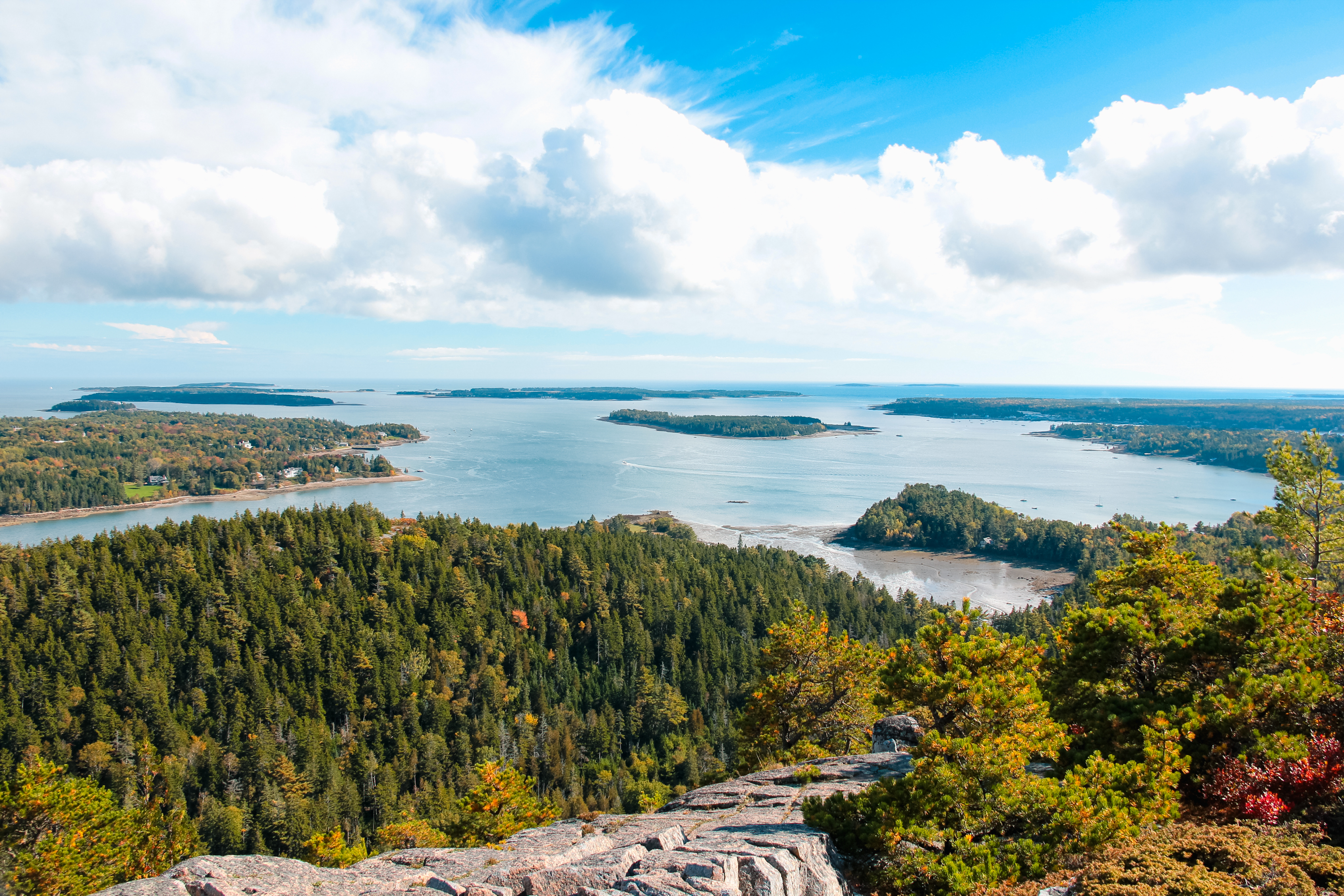 Canon EOS 60D, Canon EF-S 18-200mm | 1/80sec, f/7.1, ISO 100